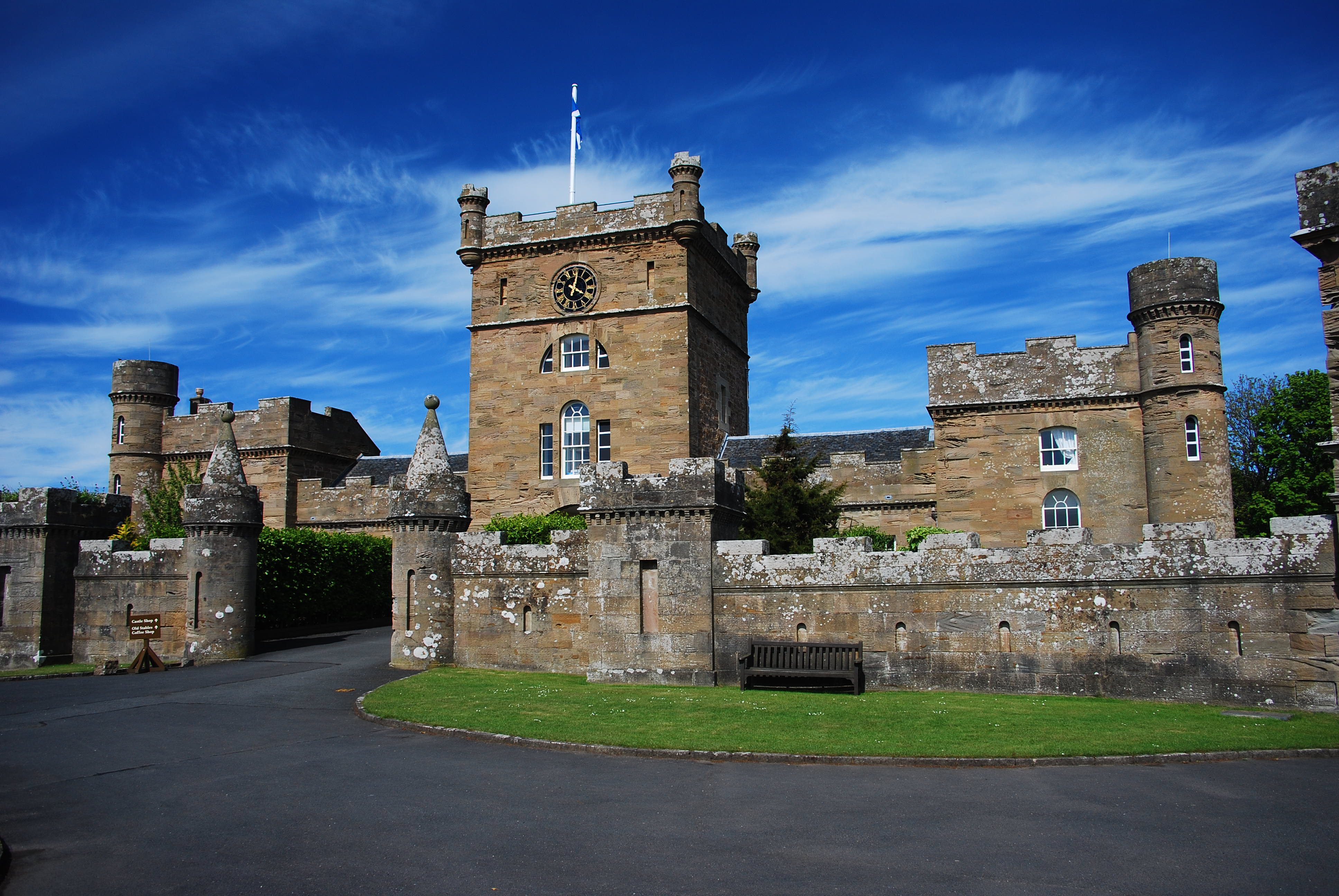 Right wing of Culzean Castle, Scotland